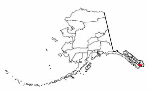 Adapted from Wikipedia's AK borough maps by Seth Ilys.